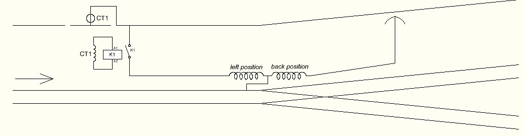 Way of working of Soviet tram arrows. There was contact before arrow (CT1) and one more after arrow. When driver wants go to left, he should cross contact CT1 with enabled motor, which switched arrow to left; after tram passed arrow, pantograph crossed contact after arrow, which switched arrow back.